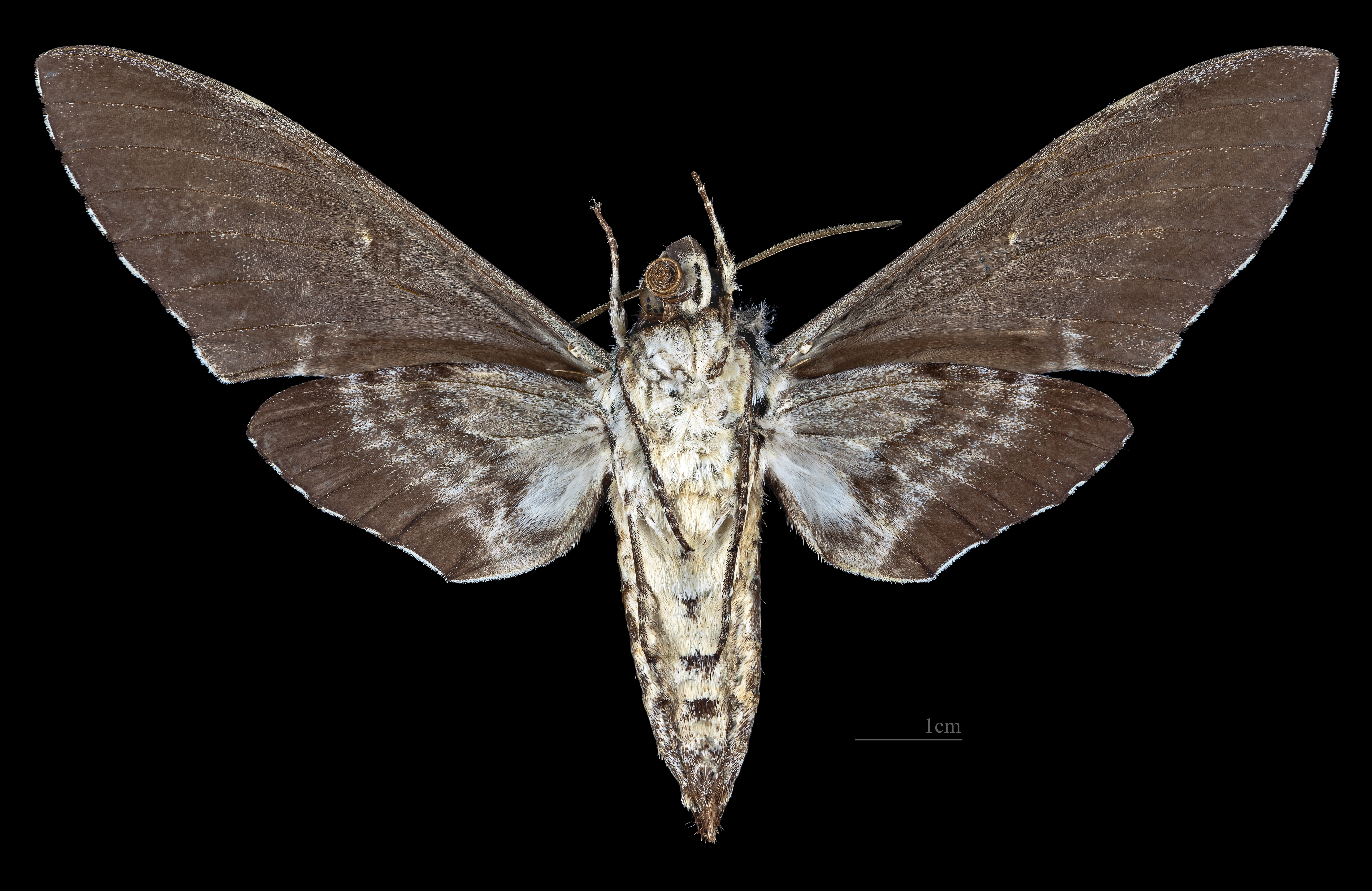 Manduca barnesi - △ Ventral side Collection of the Mathematician Laurent Schwartz